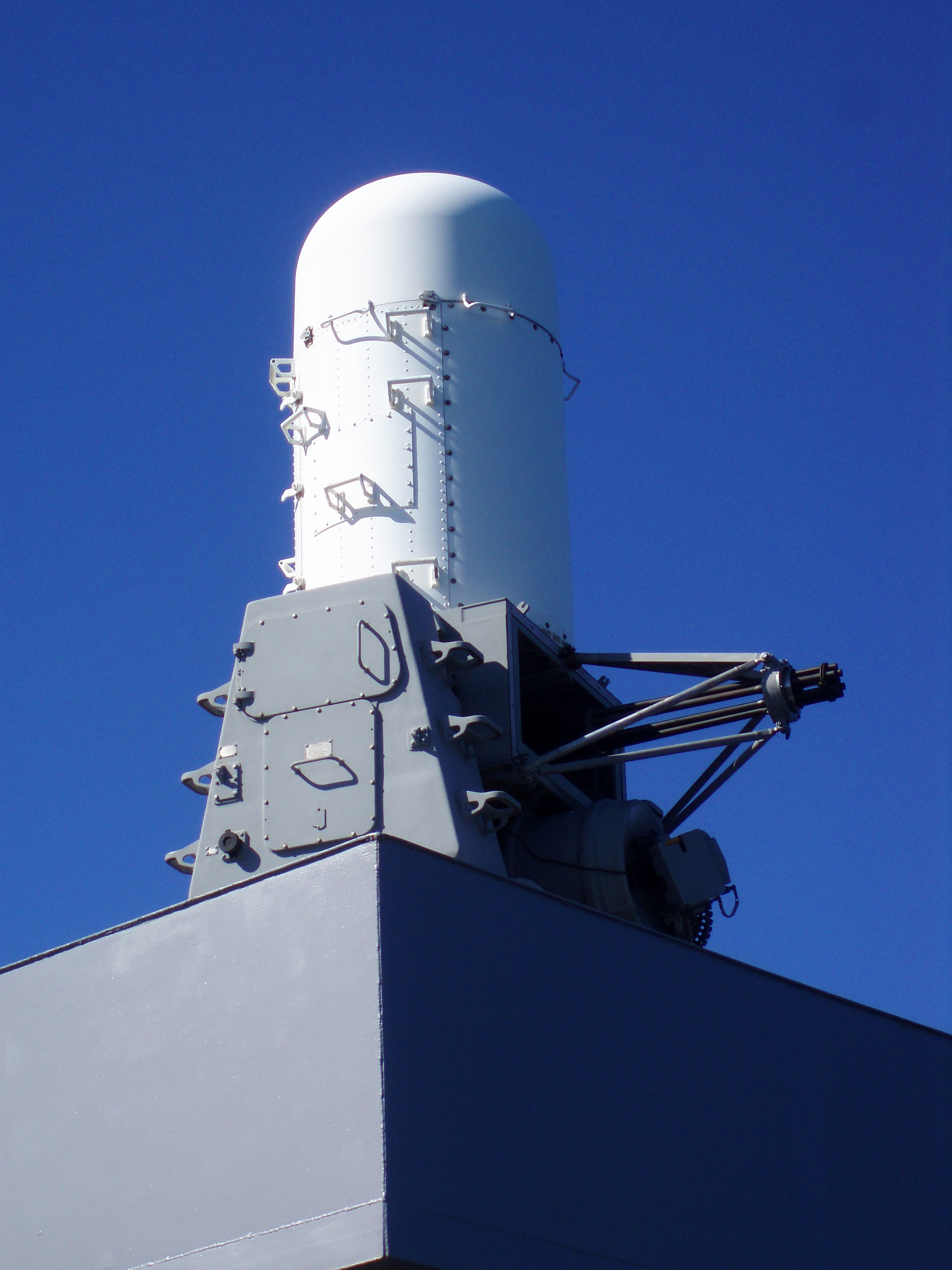 A Phalanx CIWS mounted on the USS Denver (LPD-9). Taken during a gun demonstration.